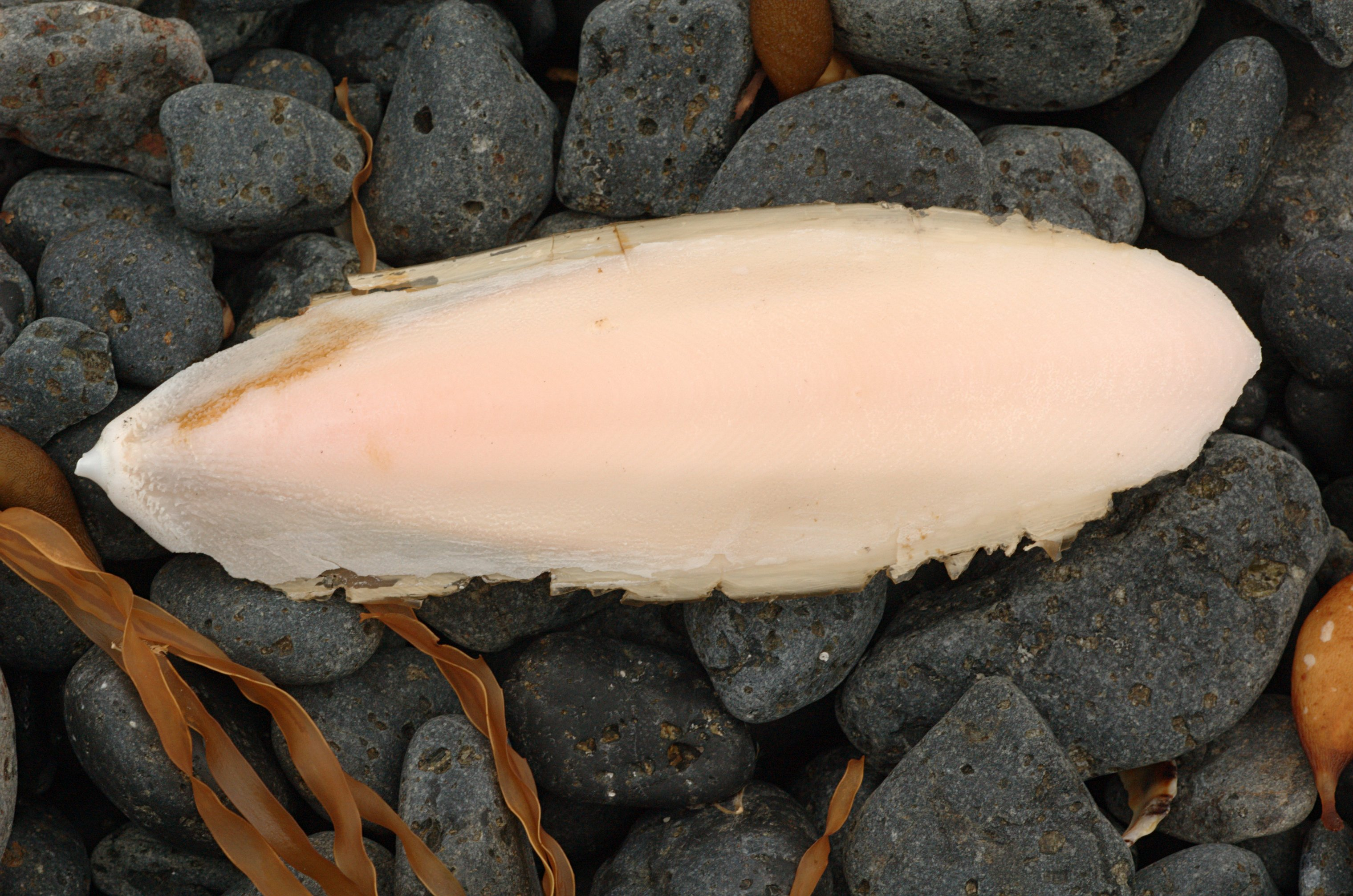 Cuttlebone on the beach, Flinders Blowhole, Victoria, Australia.